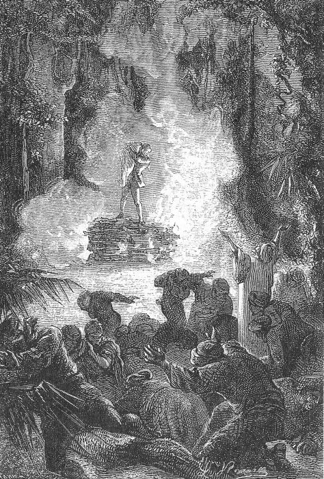 Mrs Aouda's rescue, an ilustration from the novel "Around the World in Eighty Days" by Jules Verne painted by Alphonse de Neuville and/or Léon Benett.